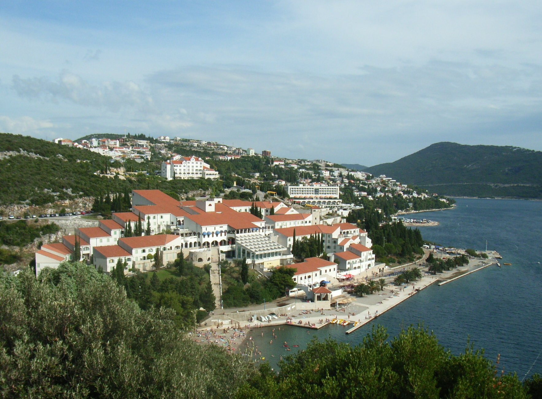 The city of Neum at the Adriatic coast of Bosnia and Herzegovina